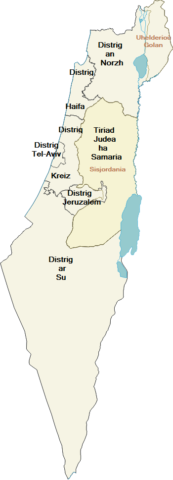 Map of Israeli districts